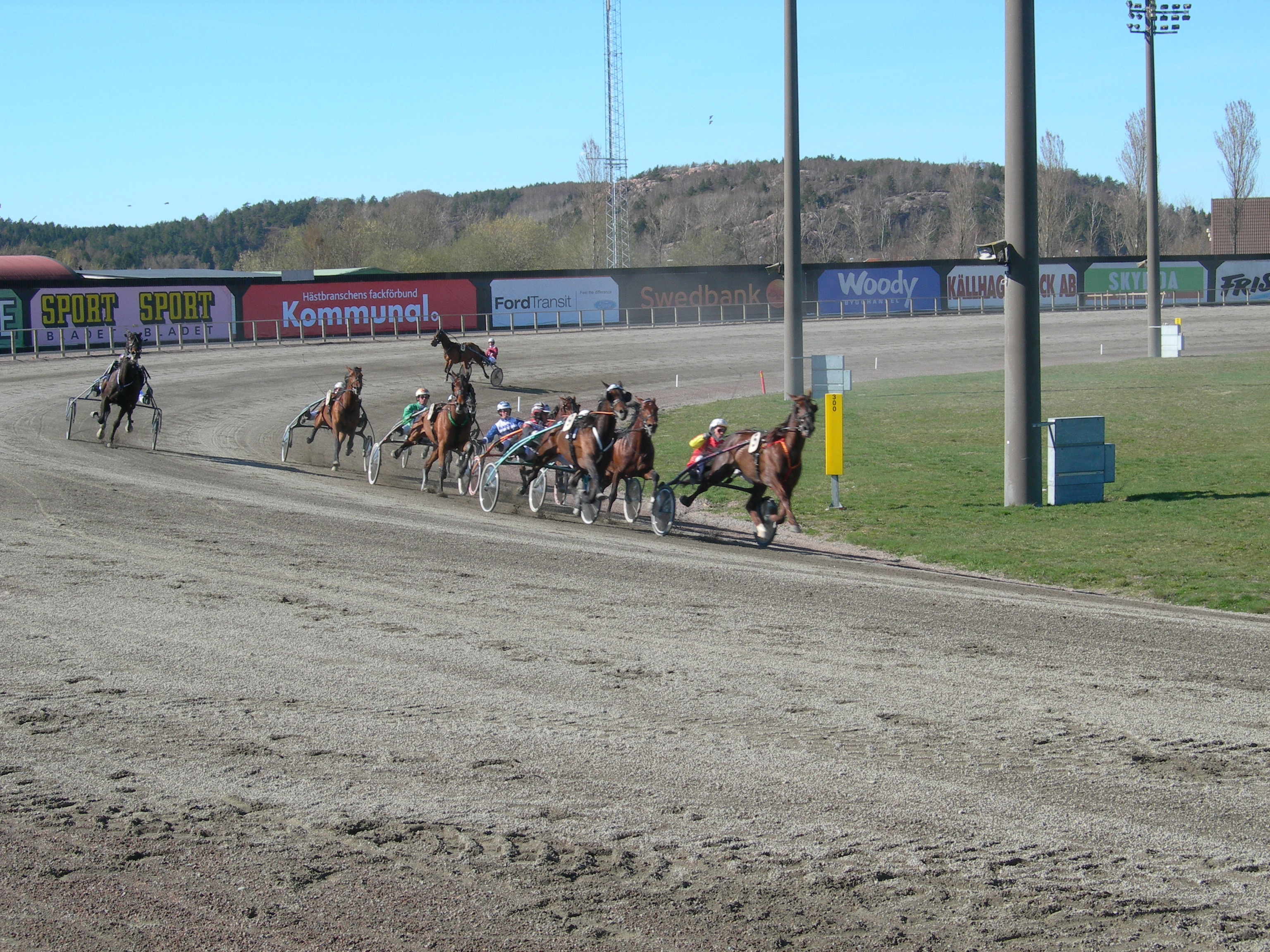 Åbytravet in Mölndal, Sweden. Photographed during the final lap of "Olympiatravet" 2009.